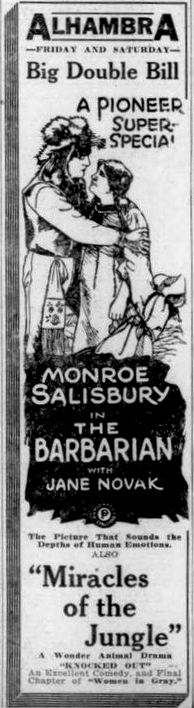 Newspaper advertisement for the American drama film The Barbarian (1920) with Monroe Salisbury and Jane Novak, on page 20 of the November 25, 1921 Duluth Herald.